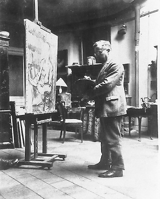 Ernst-oppler-painting-werner-sombart Collection Edwin Oppler, New York